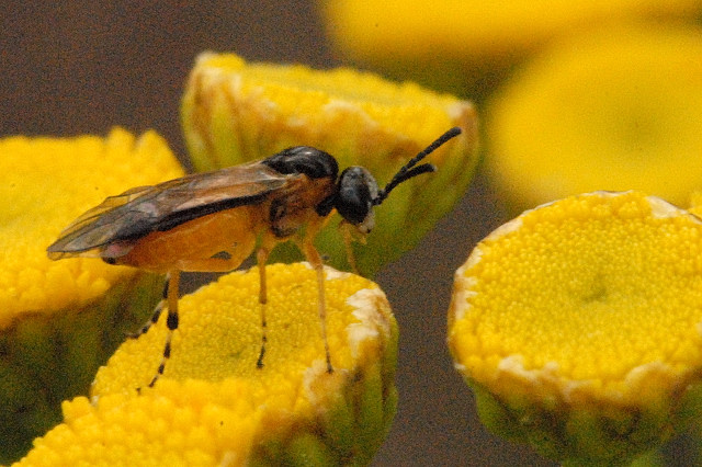 Athalia circularis from Commanster, Belgian High Ardennes .